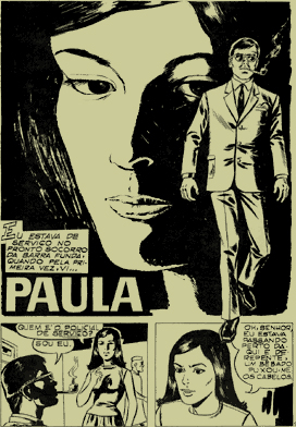 Personagem